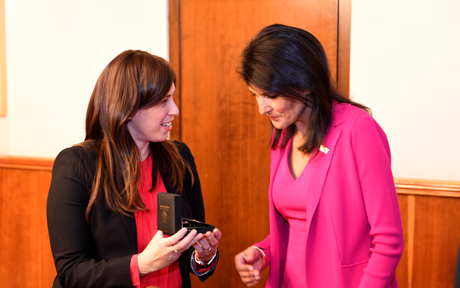 U.S. Permanent Representative to the UN, Ambassador Nikki Haley meets Israeli Prime Minister Benjamin Netanyahu at his office in Jerusalem, June 7, 2017. U.S. Permanent Representative to the UN, Ambassador Nikki Haley meets Israeli President Reuven Rivlin at the President’s Residence in Jerusalem, June 7, 2017.